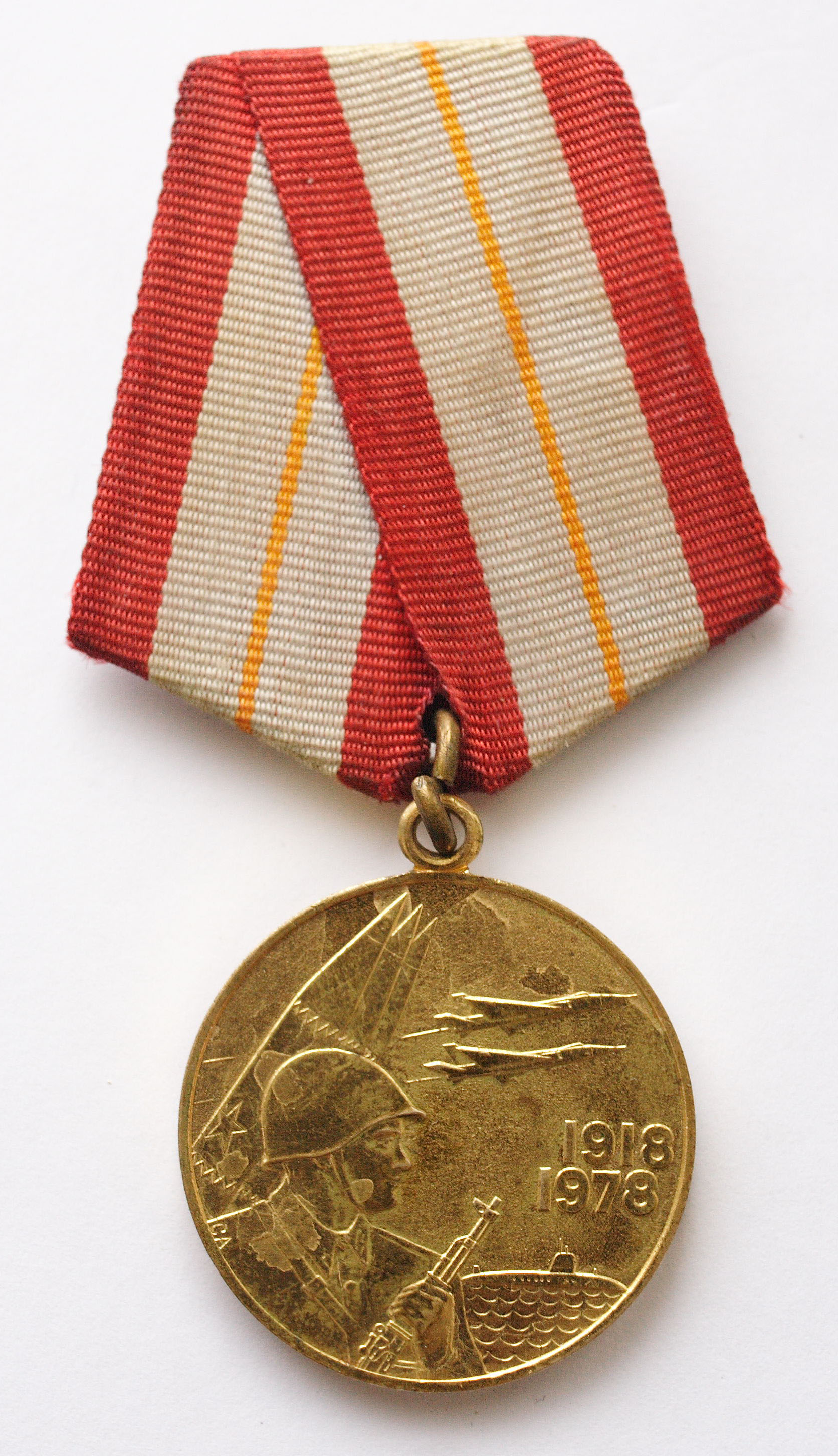 Obverse of the Jubilee Medal "60 Years of the Armed Forces of the USSR".